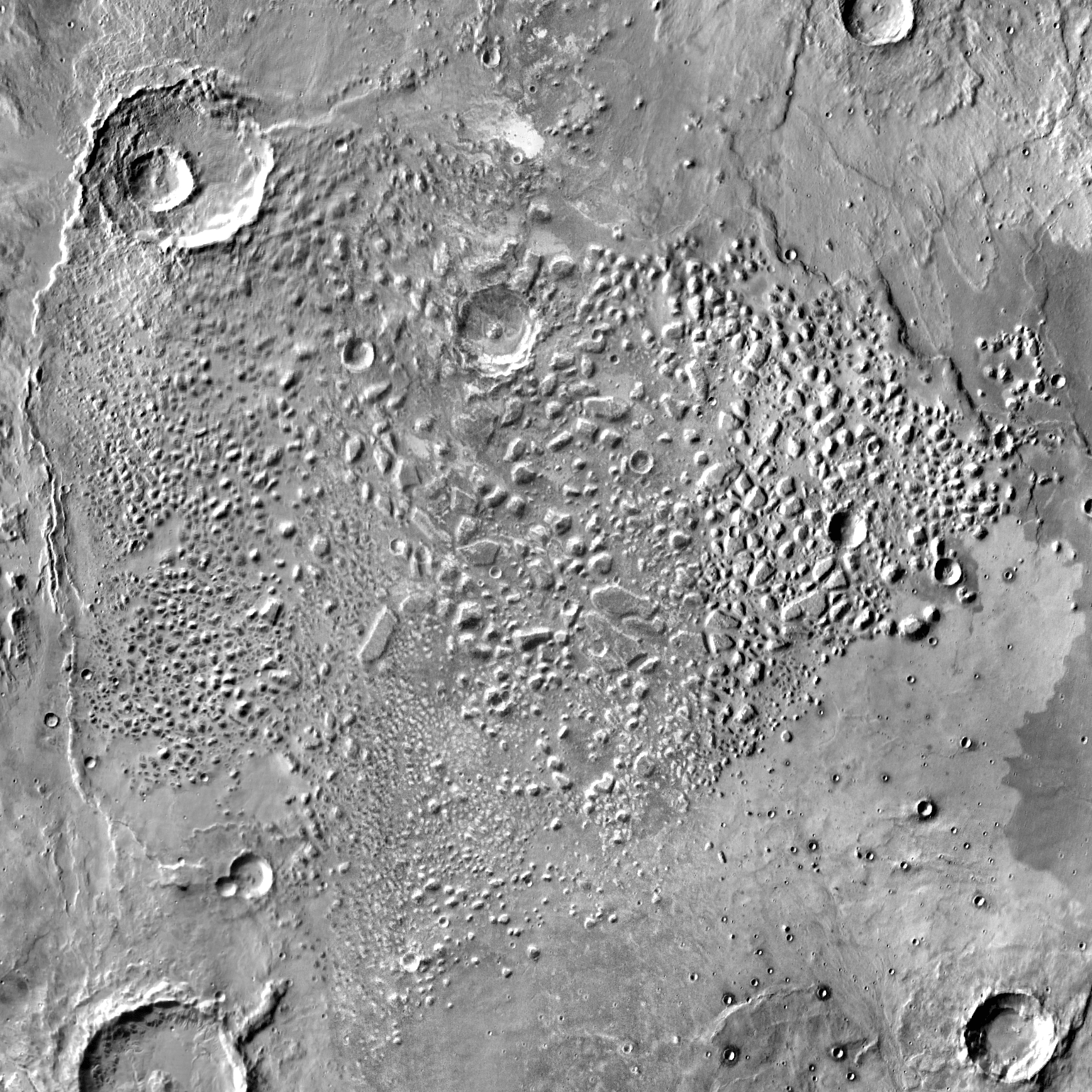 Ariadnes Colles on Mars (the whole of the feature). Mosaic of daytime infrared images from the Thermal Emission Imaging System (THEMIS) instrument onboard 2001 Mars Odyssey spacecraft. Image size is 200×200 km, north is approximately up.